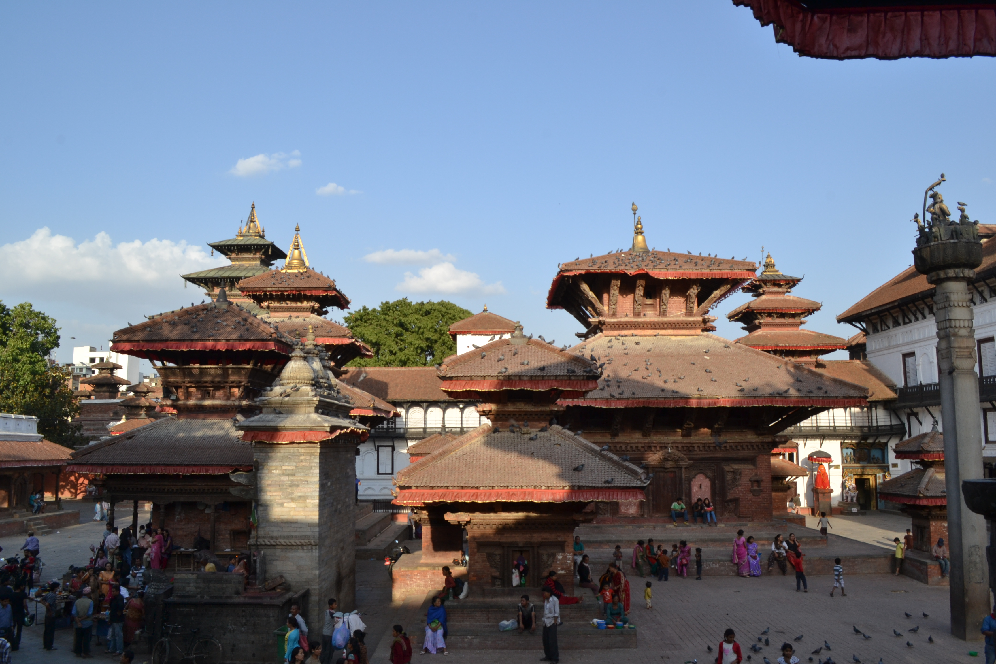 Basntapur durbar square at Newroad